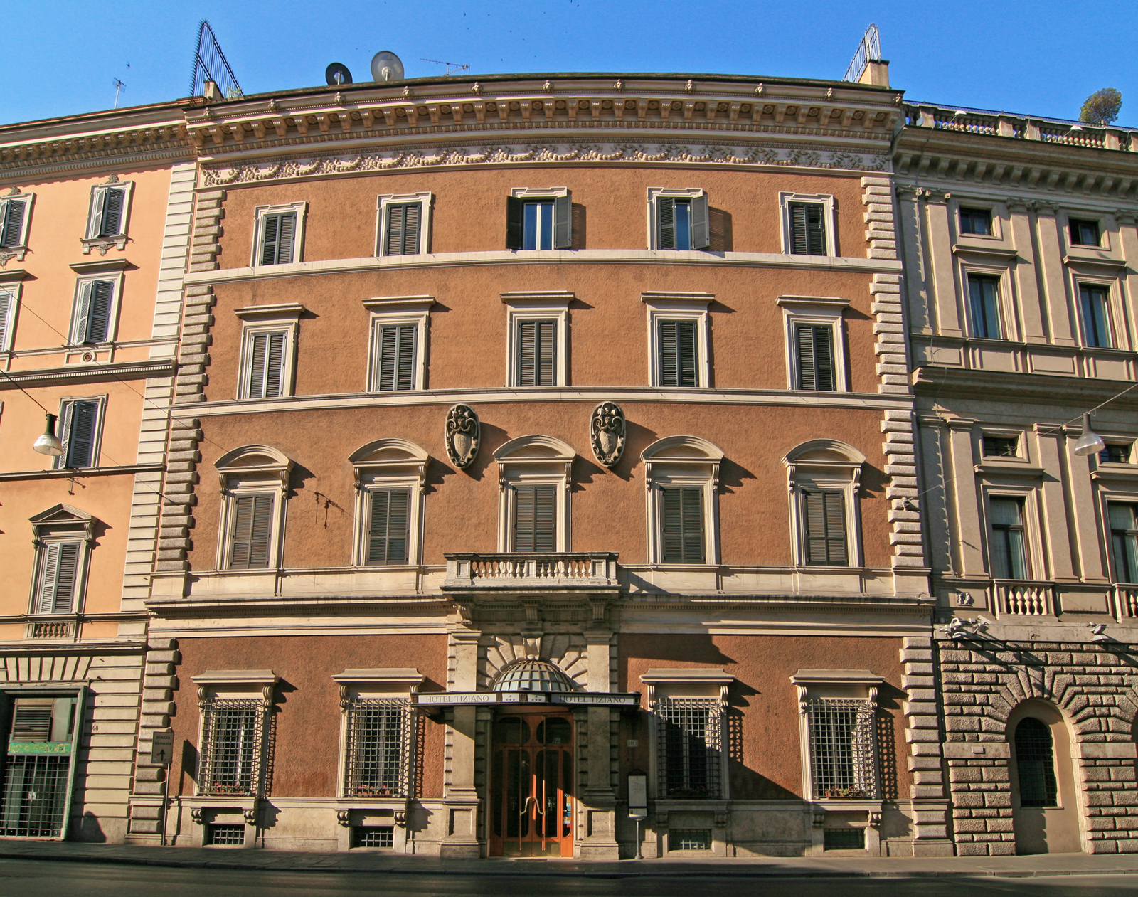 Hotel Tiziano, 110 Corso Vittorio Emanuele II, Rome.